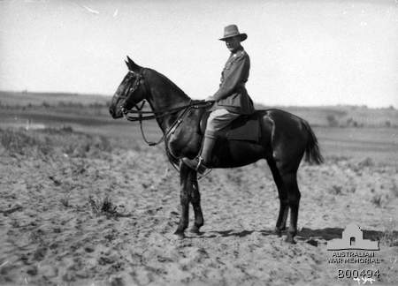 Lieutenant Colonel McCarroll, Commanding Officer Auckland Regiment, mounted on his horse.